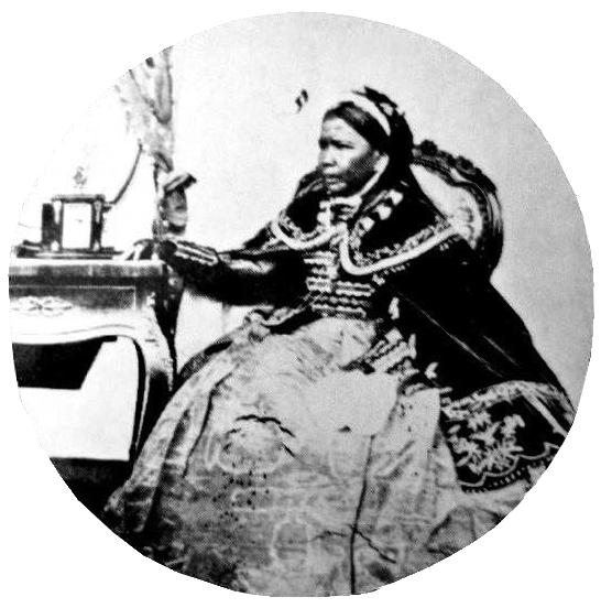 Queen Ranavalona II of Madagascar (1829-1883)